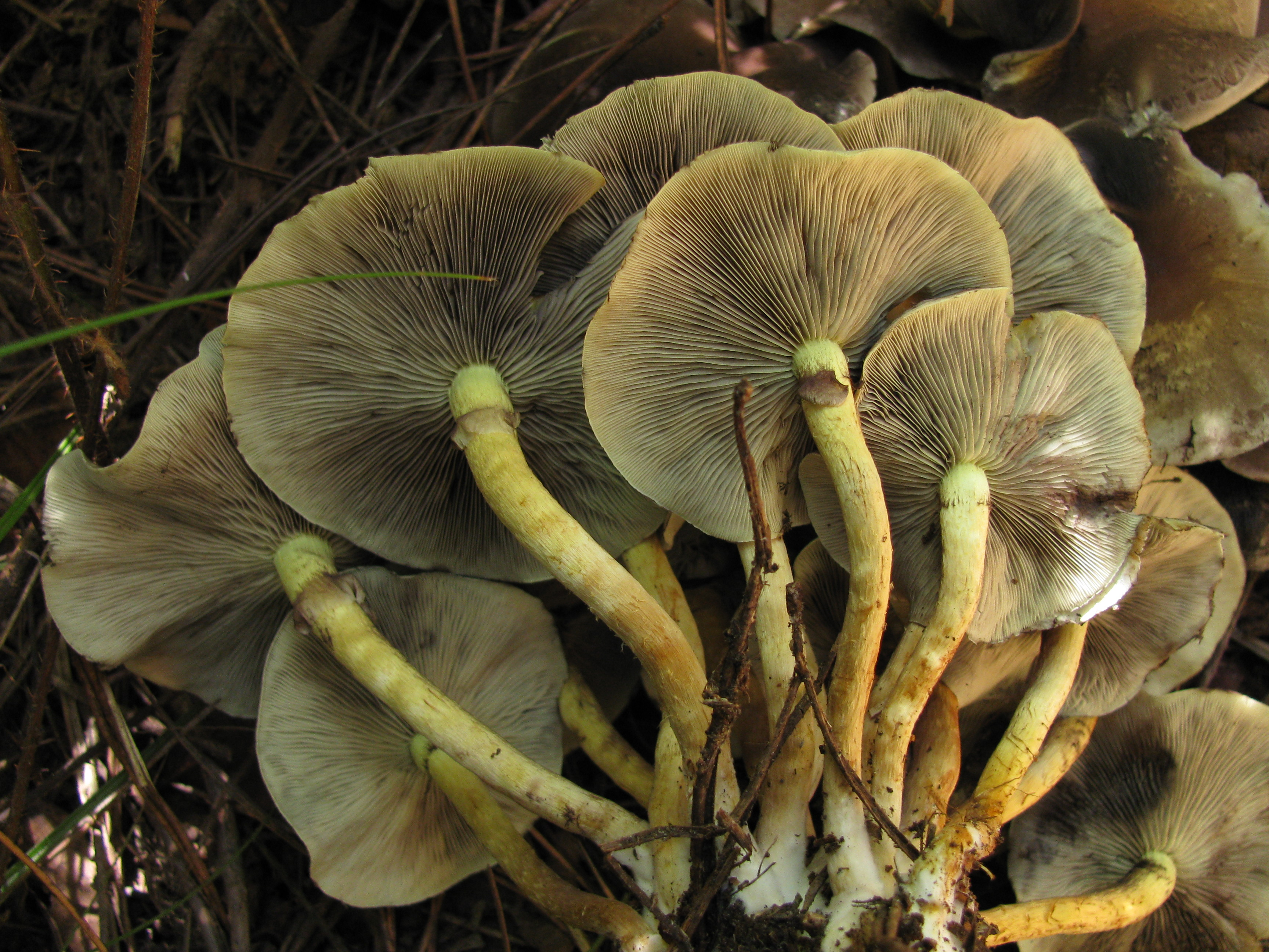 Hypholoma fasciculare (Fr.) P. Kumm. Location: Jughandle State Reserve, Menodcino County, California For more information about this, see the observation page at Mushroom Observer.